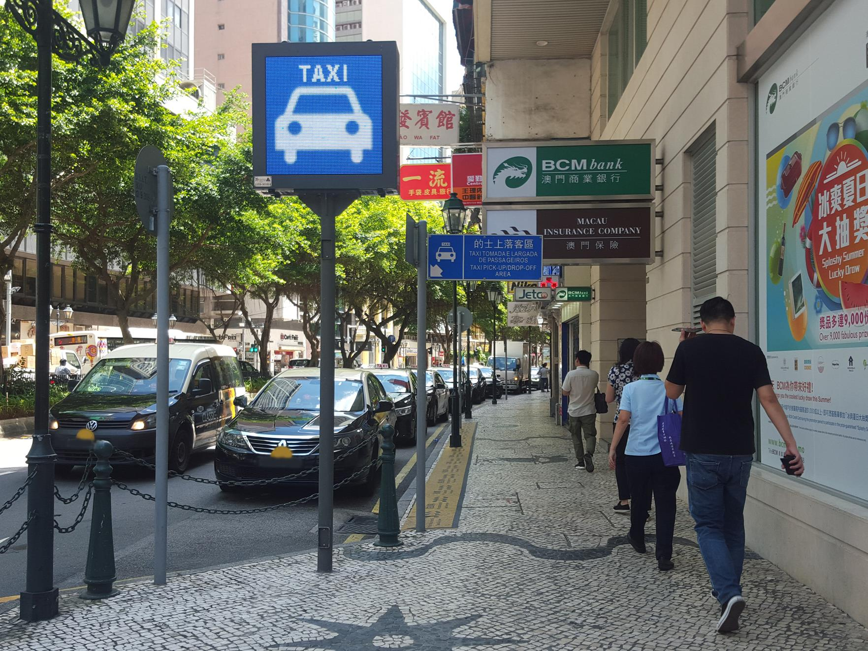 Taxi Station at Avenida da Praia Grande